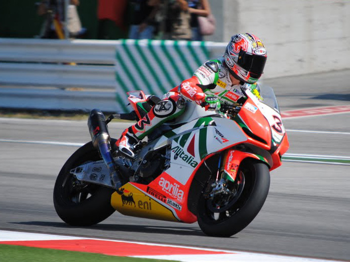 Max Biaggi 2010 SBK Misano